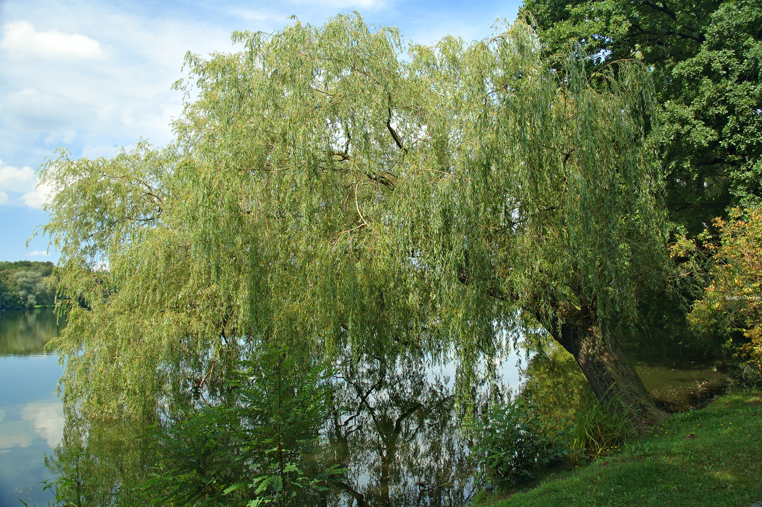 This image shows a plant of the species Salix x sepulcralis.